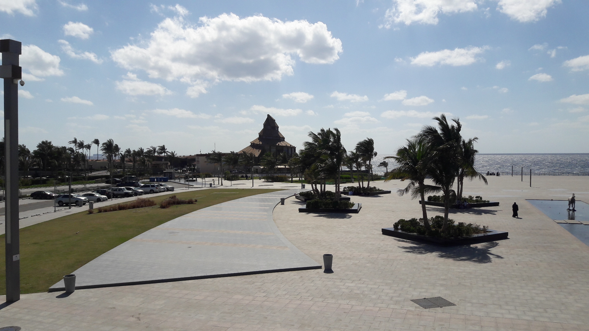 Jeddah Corniche